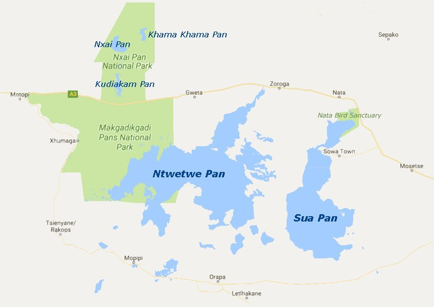 Makgadikgadi Pans Map - Botswana (in green the protected areas) Map from OpenStreetMap and data from World Database of Protected Areas & Terrestrial Ecoregions:Zambezian Halophytics (AT0908)